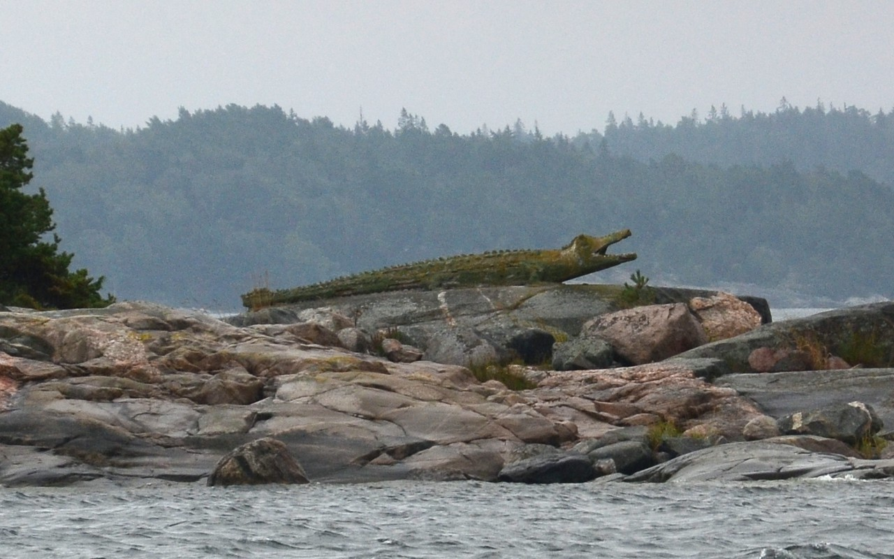 The concrete crocodile guarding the south tip of the island Rögrund, Värmdö Municipality, Stockholm archipelago